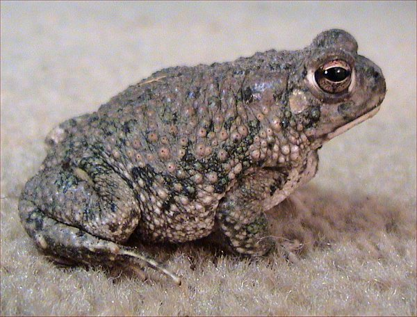 Texas Toad, Bufo speciosus courtesy of Austin Reptile Service.